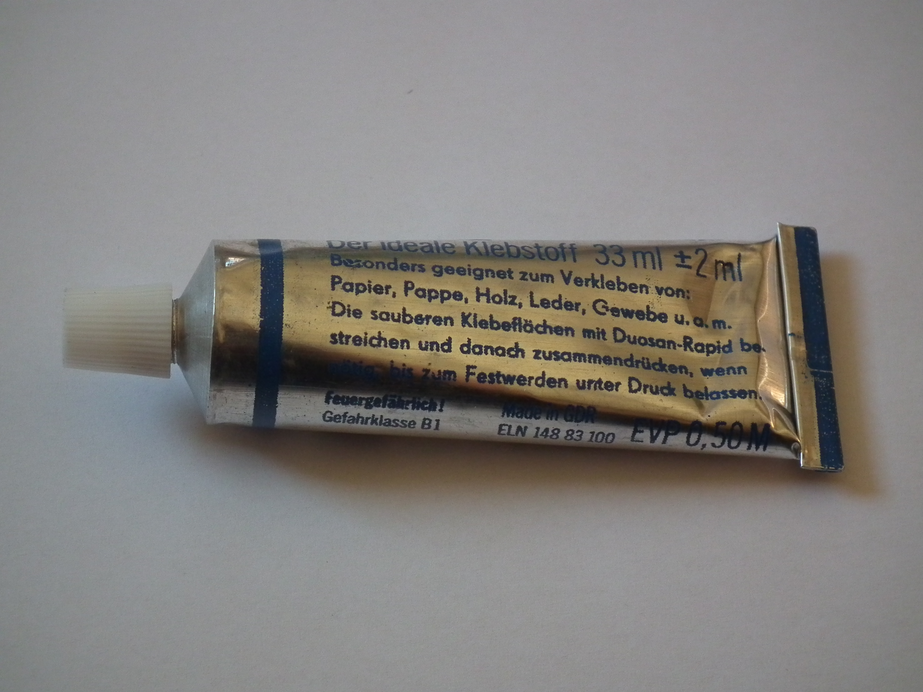 Adhesive Duosan rapid Tube back side